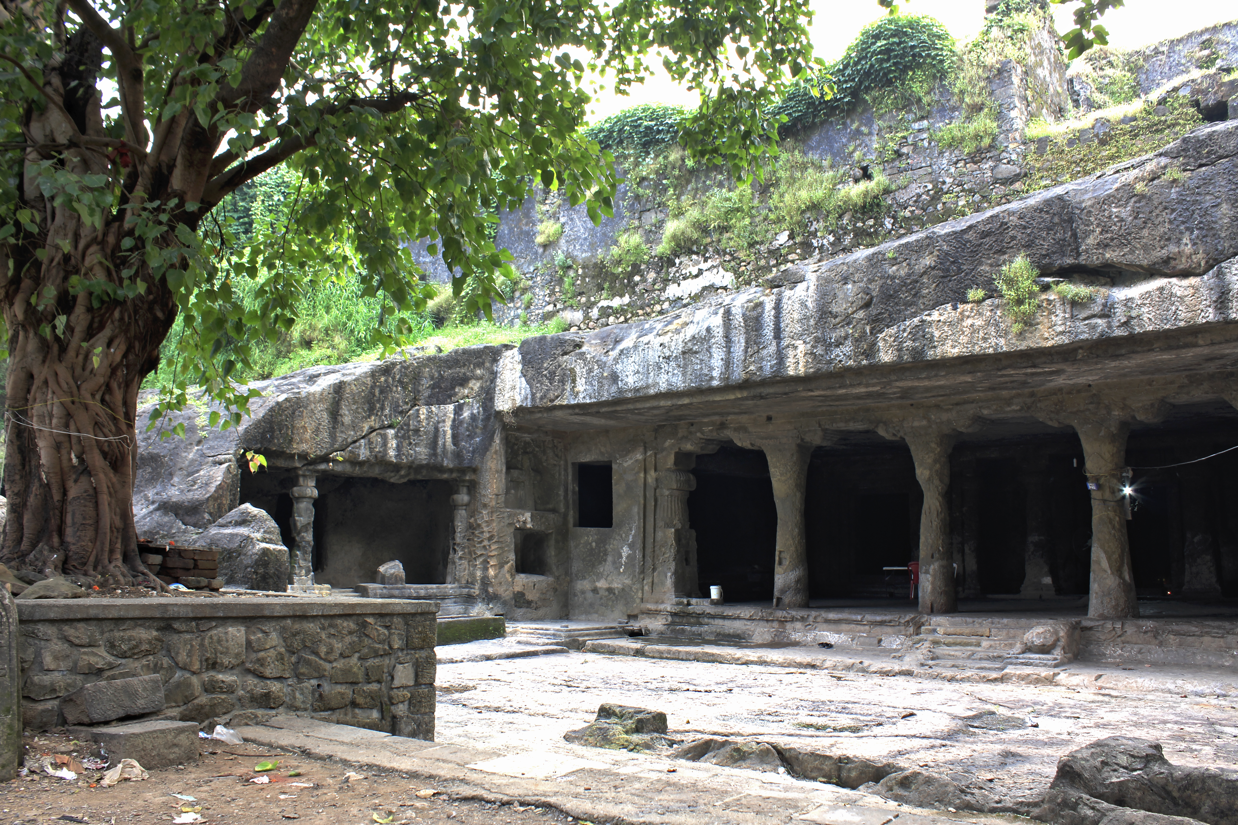 Mandapeshwar is a Shaiva cave built by the Buddhists with the help of Persian artists in the 6th Century.